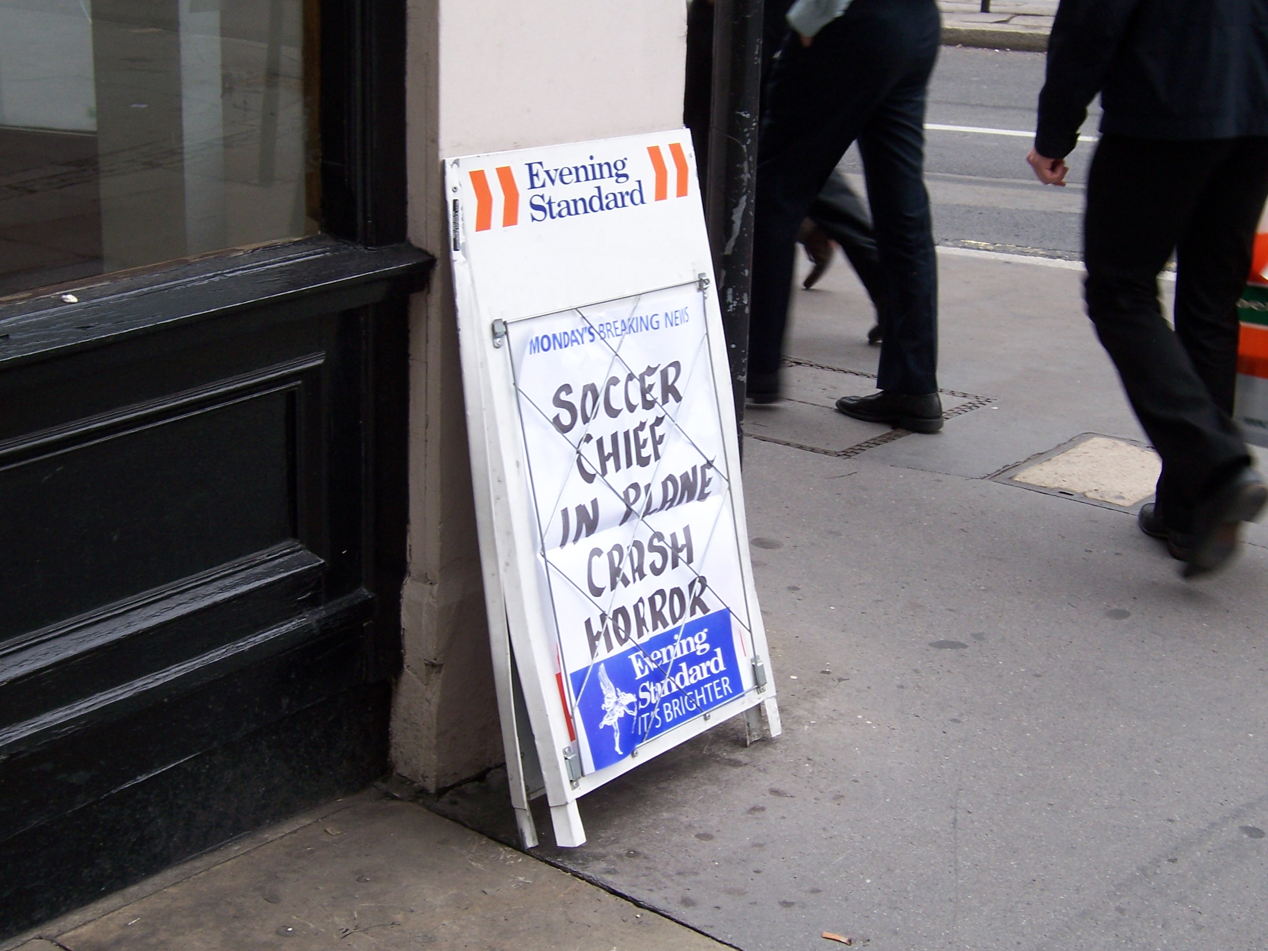 Taken from here. Author: Mwalcoff.